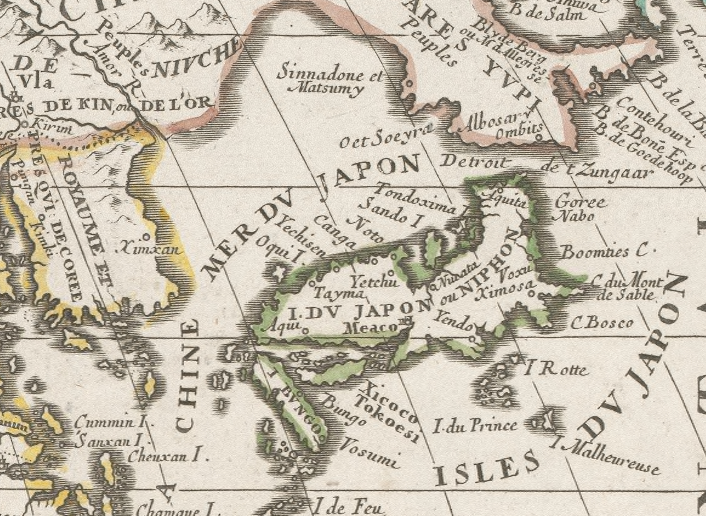 Excerpts of the map “L’Asie selon les mémoires les plus nouveaux” drawn J.B. Nolin, Paris. The central part of the sea is described as “Mer du Japon” (Sea of Japan).